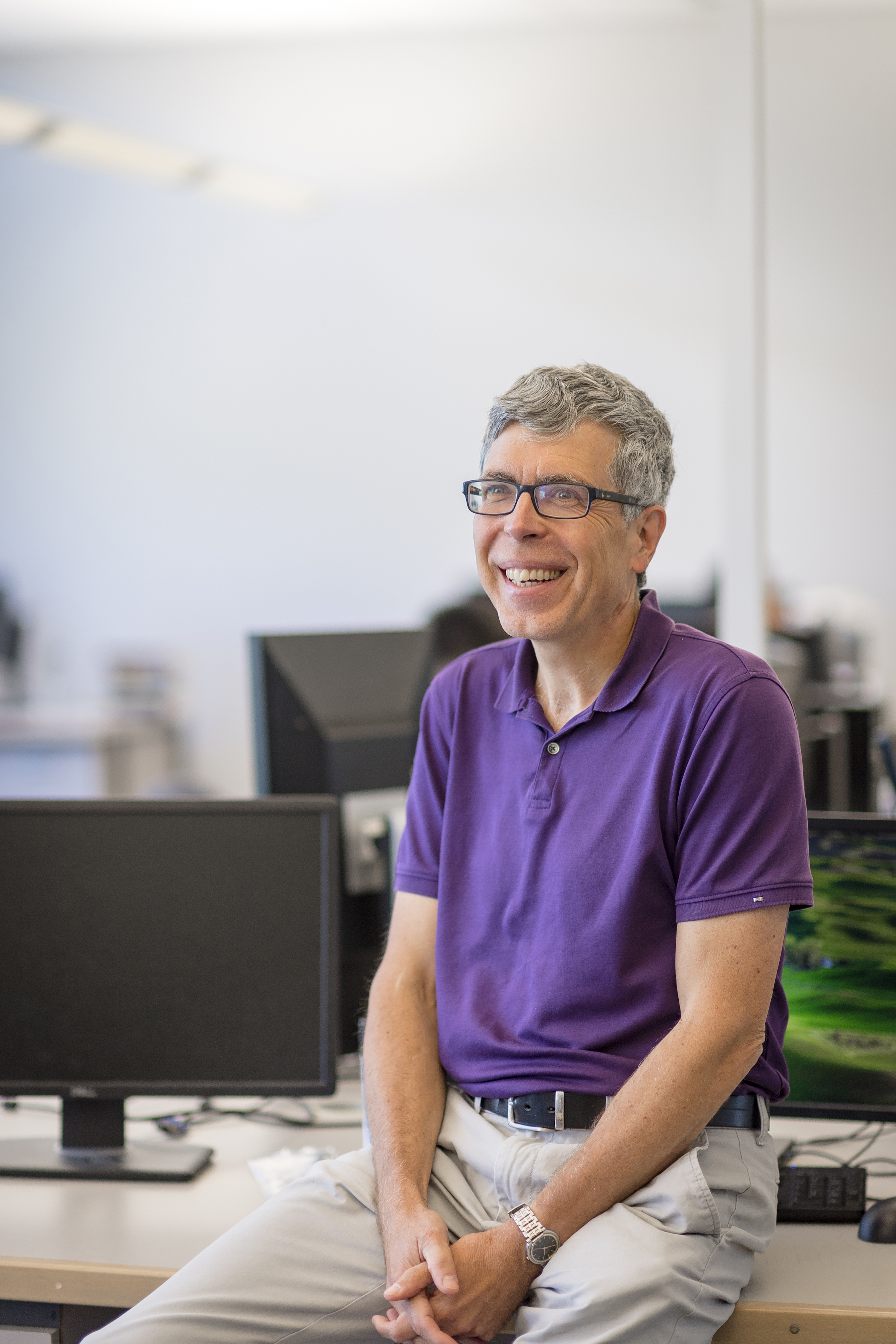 martin ester shot as recipient of royal society award data mining computing science